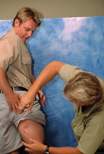 Wes Mannion and Steve Irwin showing Wes's crocodile attack scar